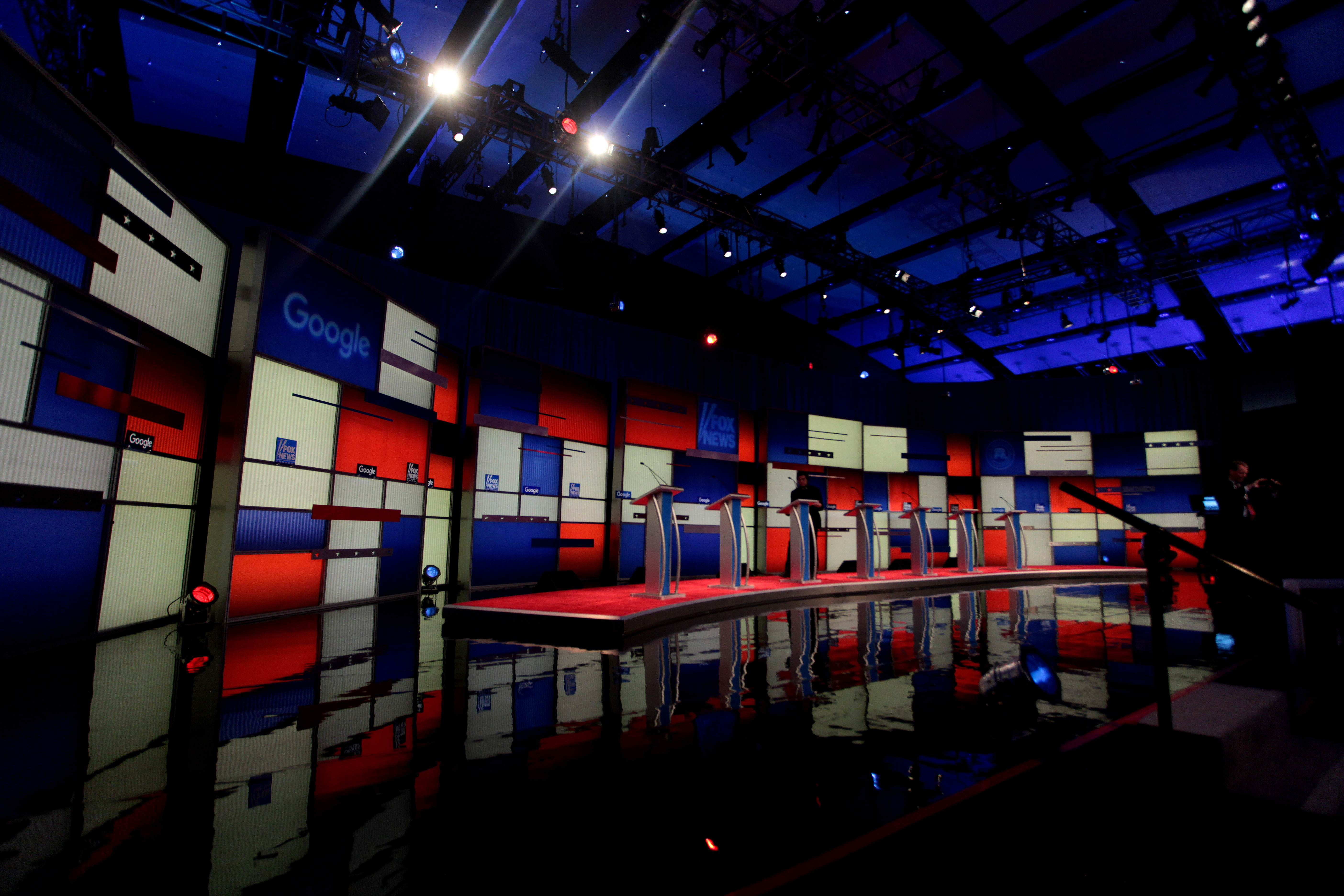 Republican Party debate stage hosted by Fox News in Des Moines, Iowa.